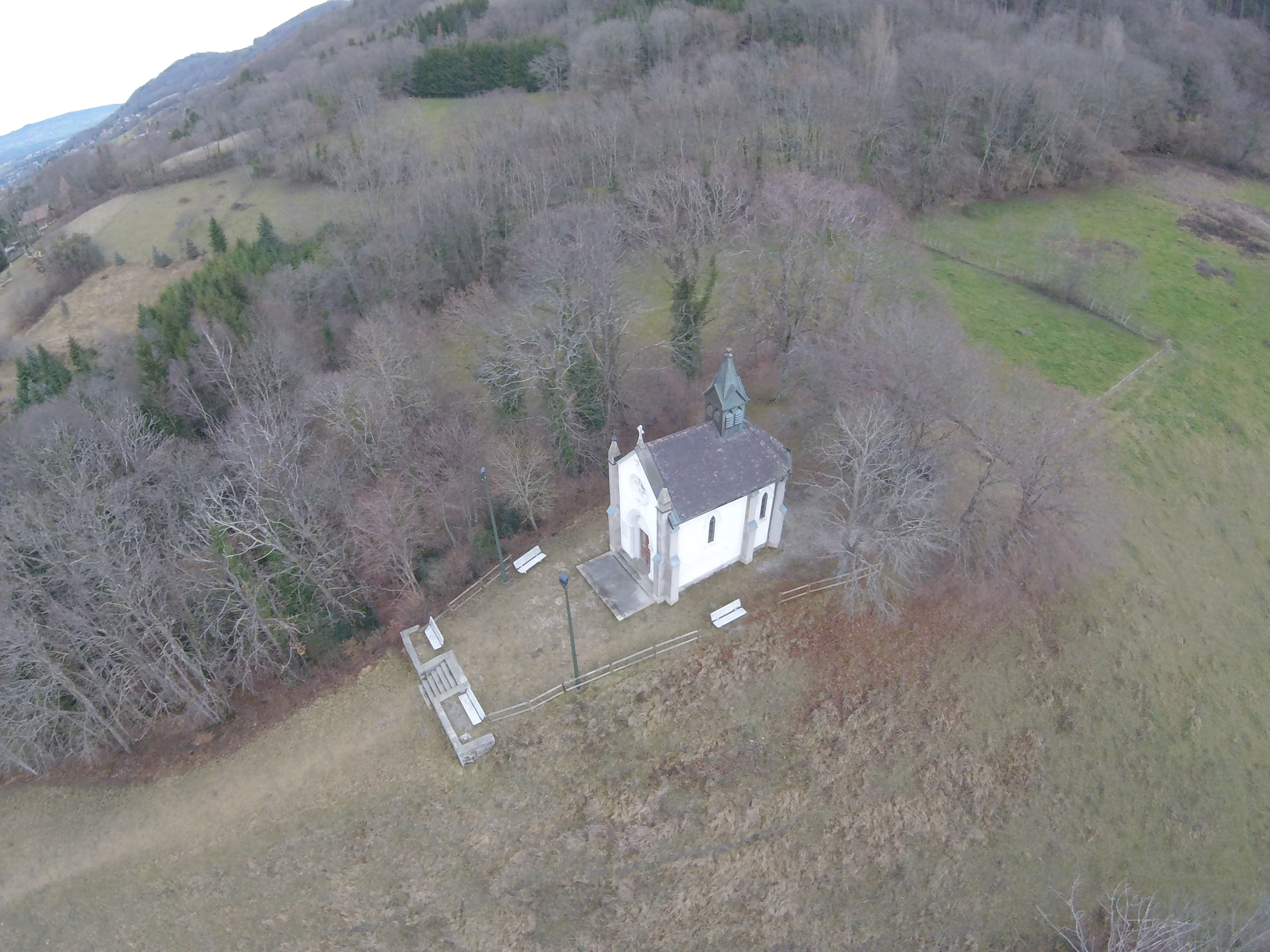 Chapelle Notre-Dame-de-Lourdes de Chermont, aerial view